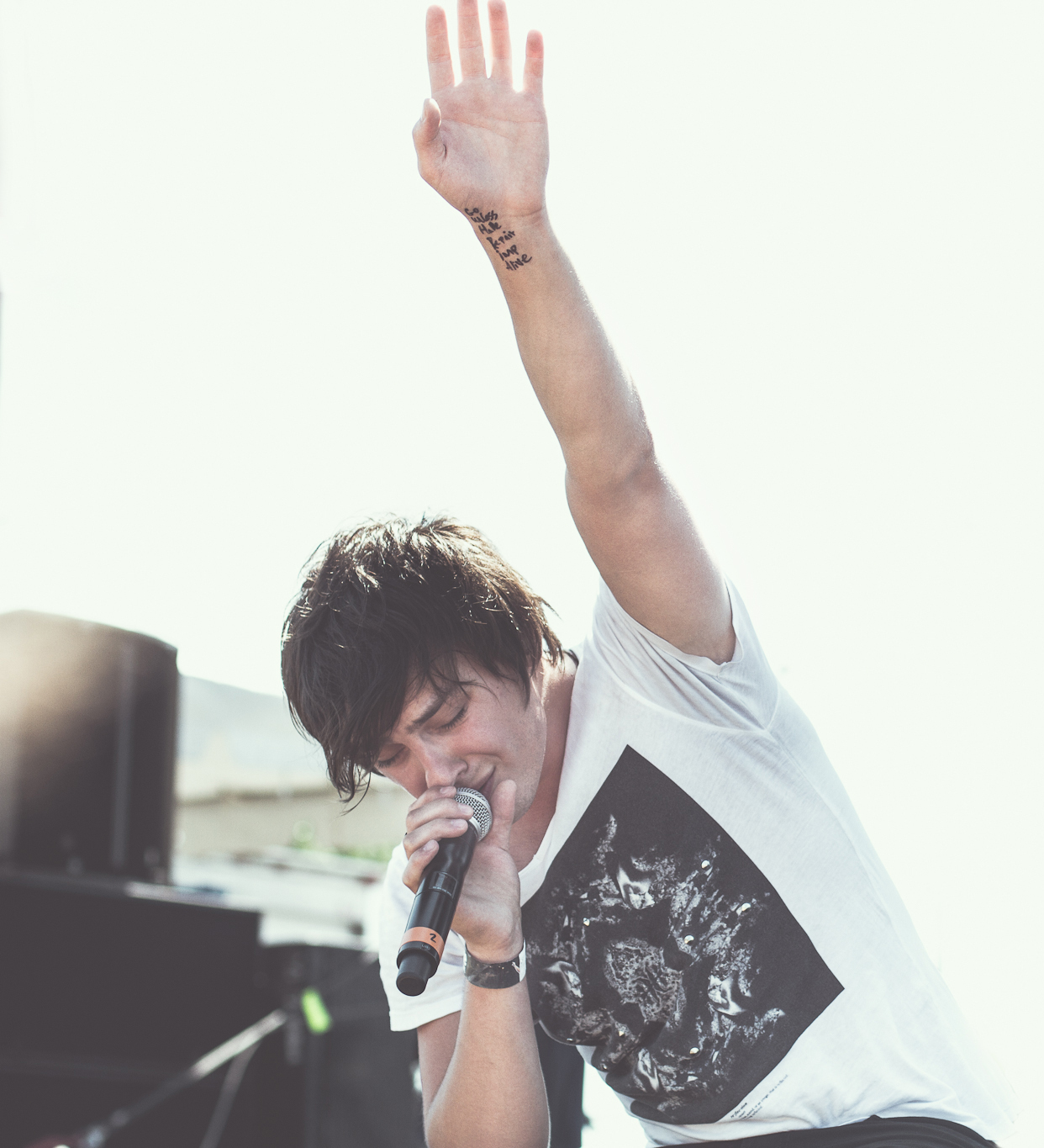 Singer Nikita Odnoralov of Christian Rock band Everfound